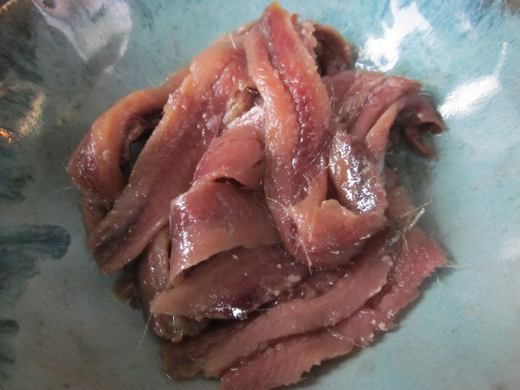 Piràmide d'aliments de l'Empordà